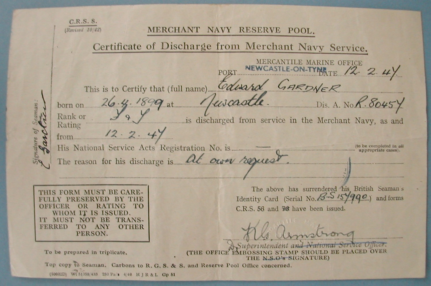 FinalDisch-MN